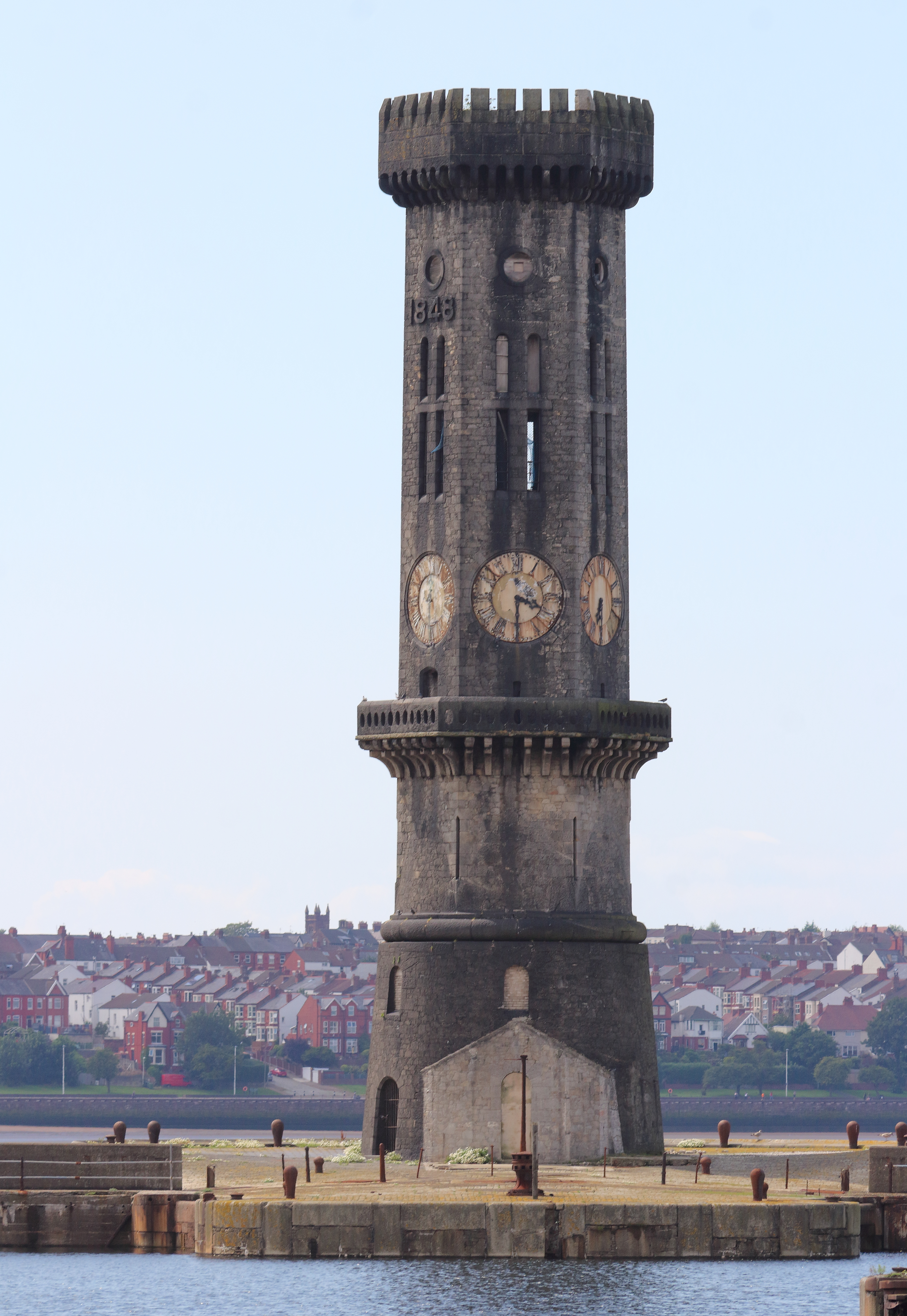 Grade II listed octagonal clock tower viewed across Salisbury Dock, with Egremont, Wallasey across the Mersey.